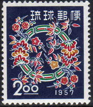 Ryukyus(Okinawa) new year stamp in 1957